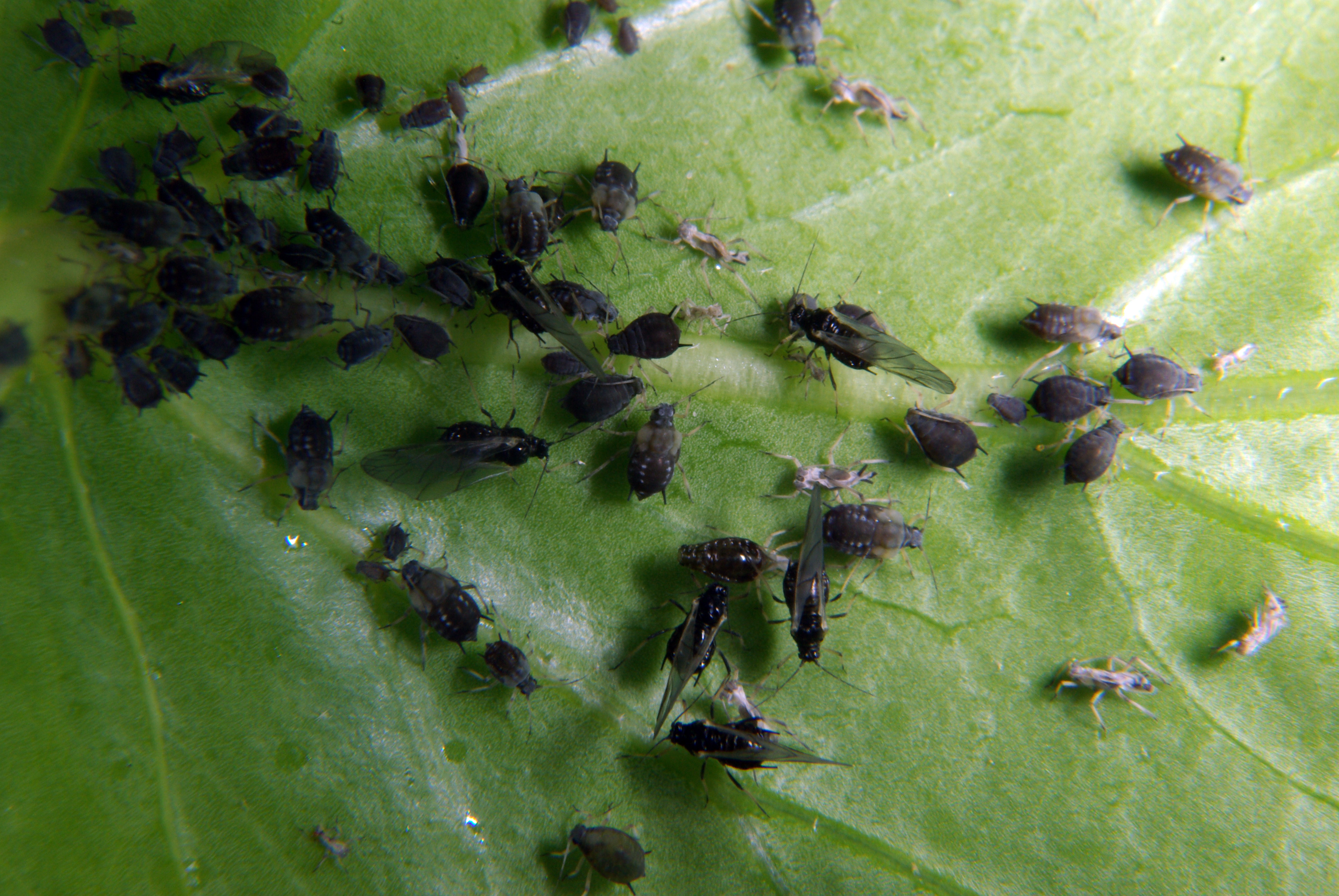 Cowpea aphid (Aphis craccivora) on Common Ivy (Hedera helix) in Madrid, (Spain). Some generations of parthenogenetic viviparous females are seen: Brightness, winged adults, and matte nymphs. And some exuviae are shown too.